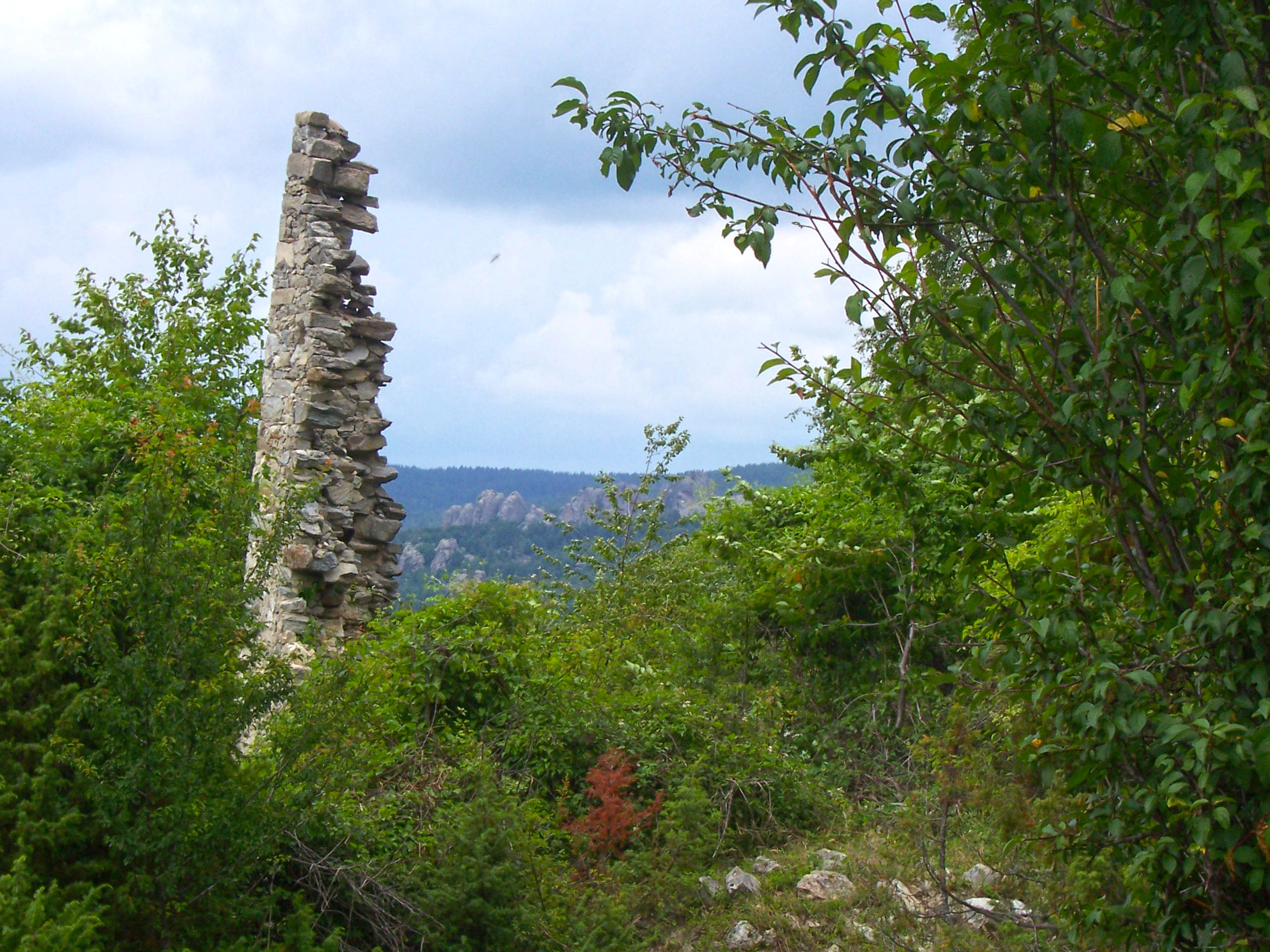 Tisovo pilar.